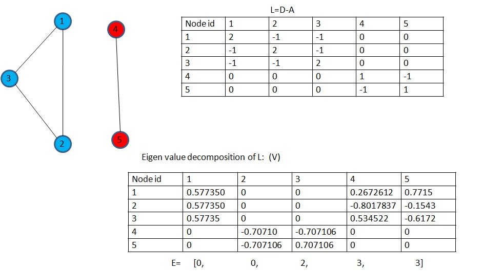 This graph has 2 separated components such that the eigenvalue decomposition of the Laplacian of the graph yields smallest 2 eigenvalues=0